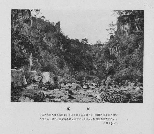 Gōkei canyon in Kibichūō, Okayama.